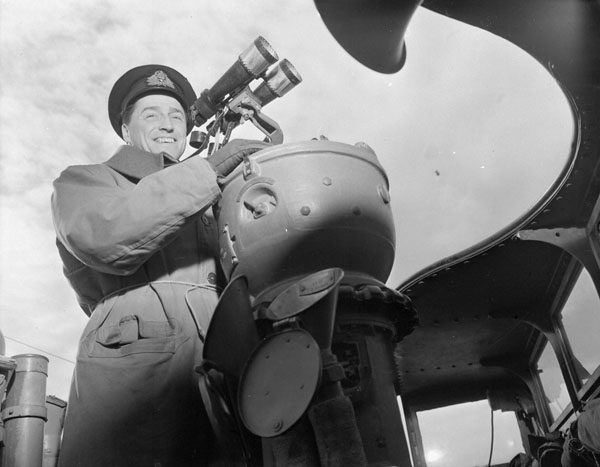 Lieutenant-Commander Desmond W. Piers, Commanding Officer, on the bridge of the destroyer H.M.C.S. RESTIGOUCHE, which is escorting Convoy SC-107 at sea, 21 April 1944.